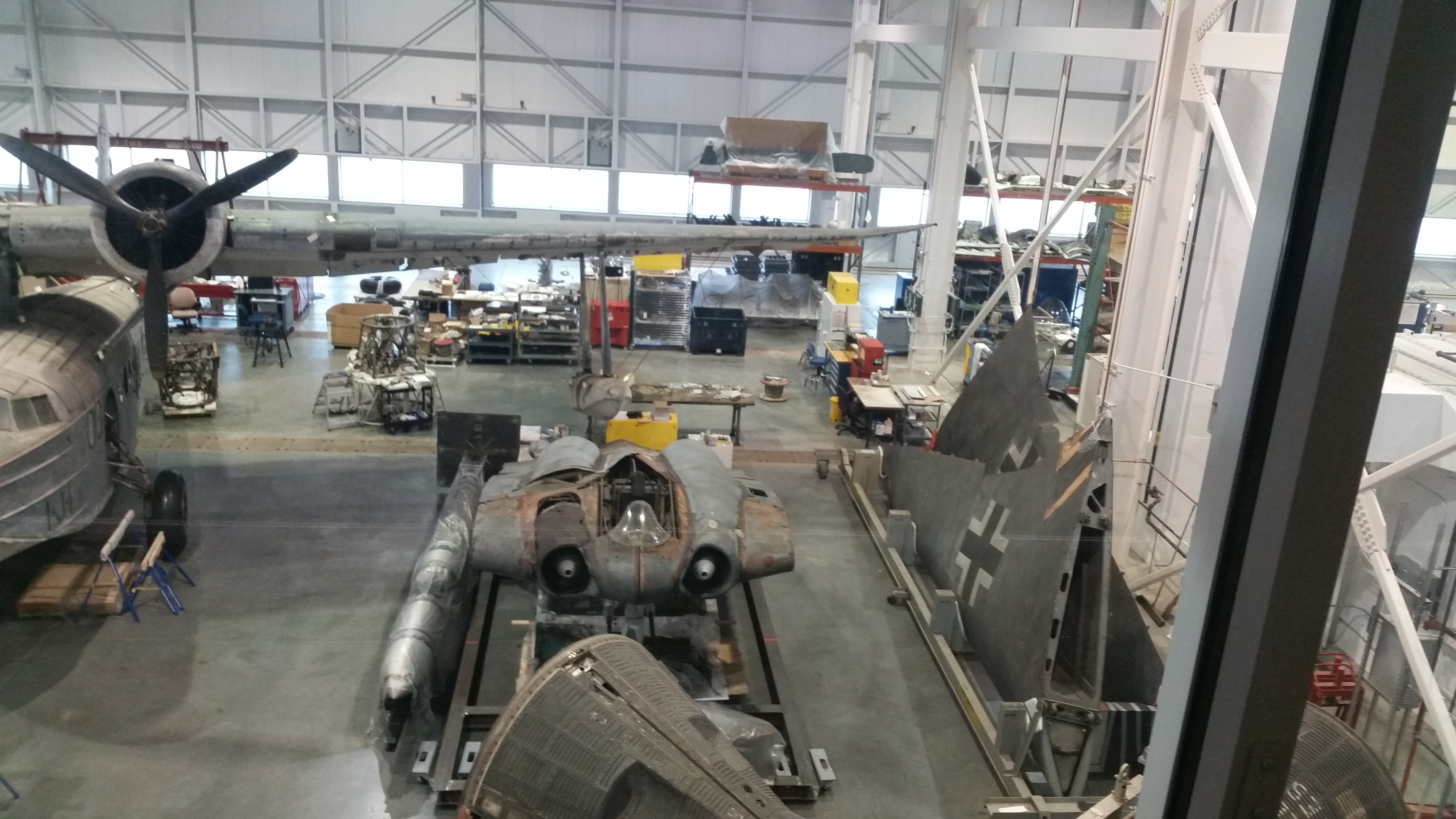 Horten Ho 229 WWII Prototype at the Mary Bake Engen Restoration Hanger in Dulles, VA 8-20-2015